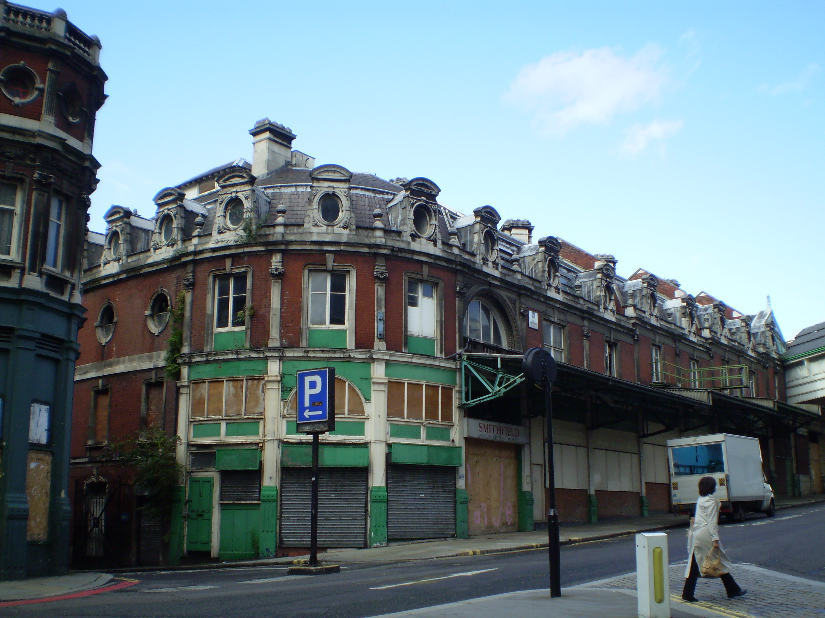 Photograph of the abandoned part of Smithfield Meat Market